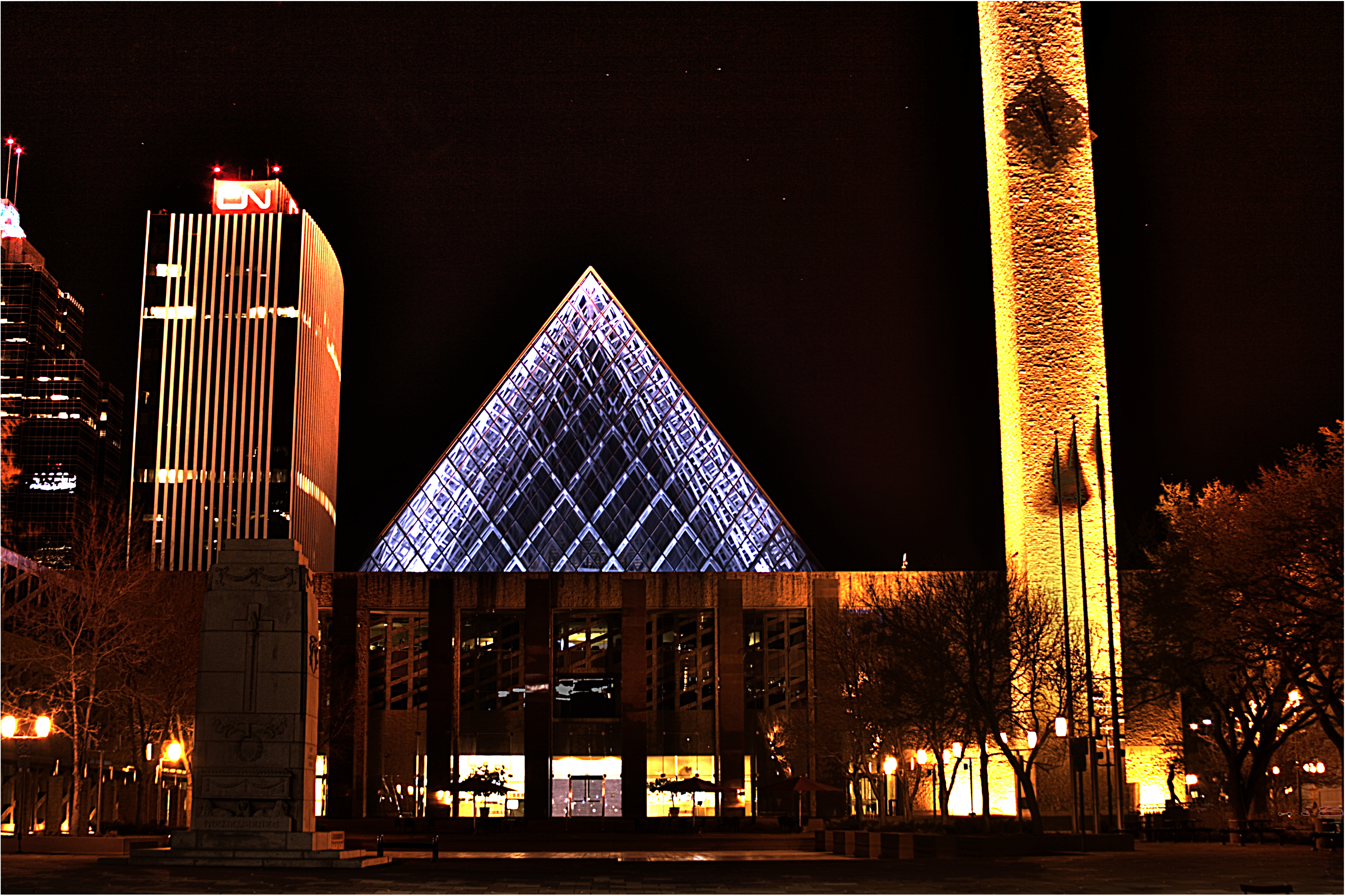 Night at the City Hall in Edmonton, Alberta, Canada.